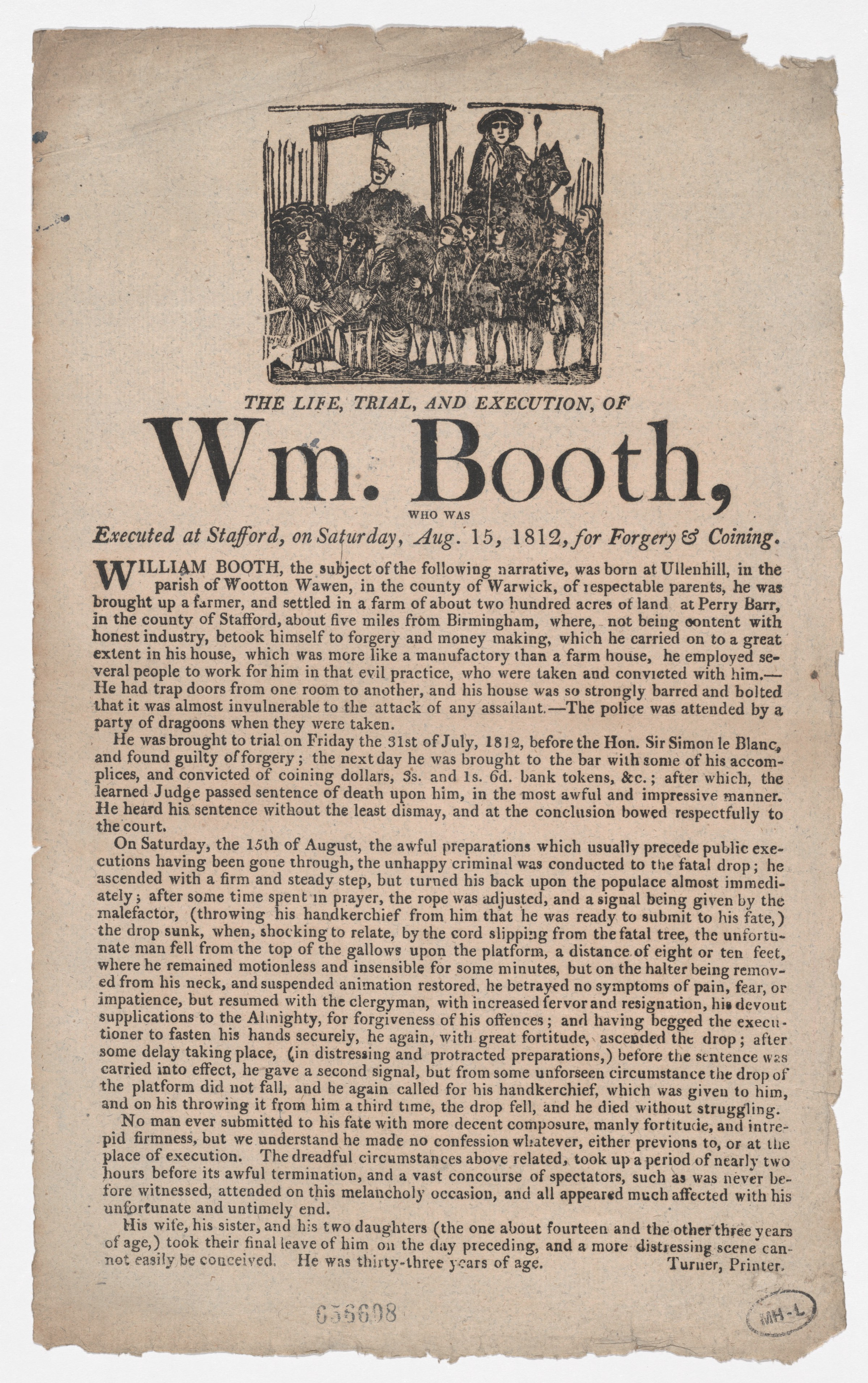 Broadside: 'The life, trial, and execution, of Wm. Booth, who was executed at Stafford on Saturday, Aug. 15, 1812, for forgery & coining' Turner, printer. For trasncrition see wikisource:The life, trial, and execution, of Wm. Booth.